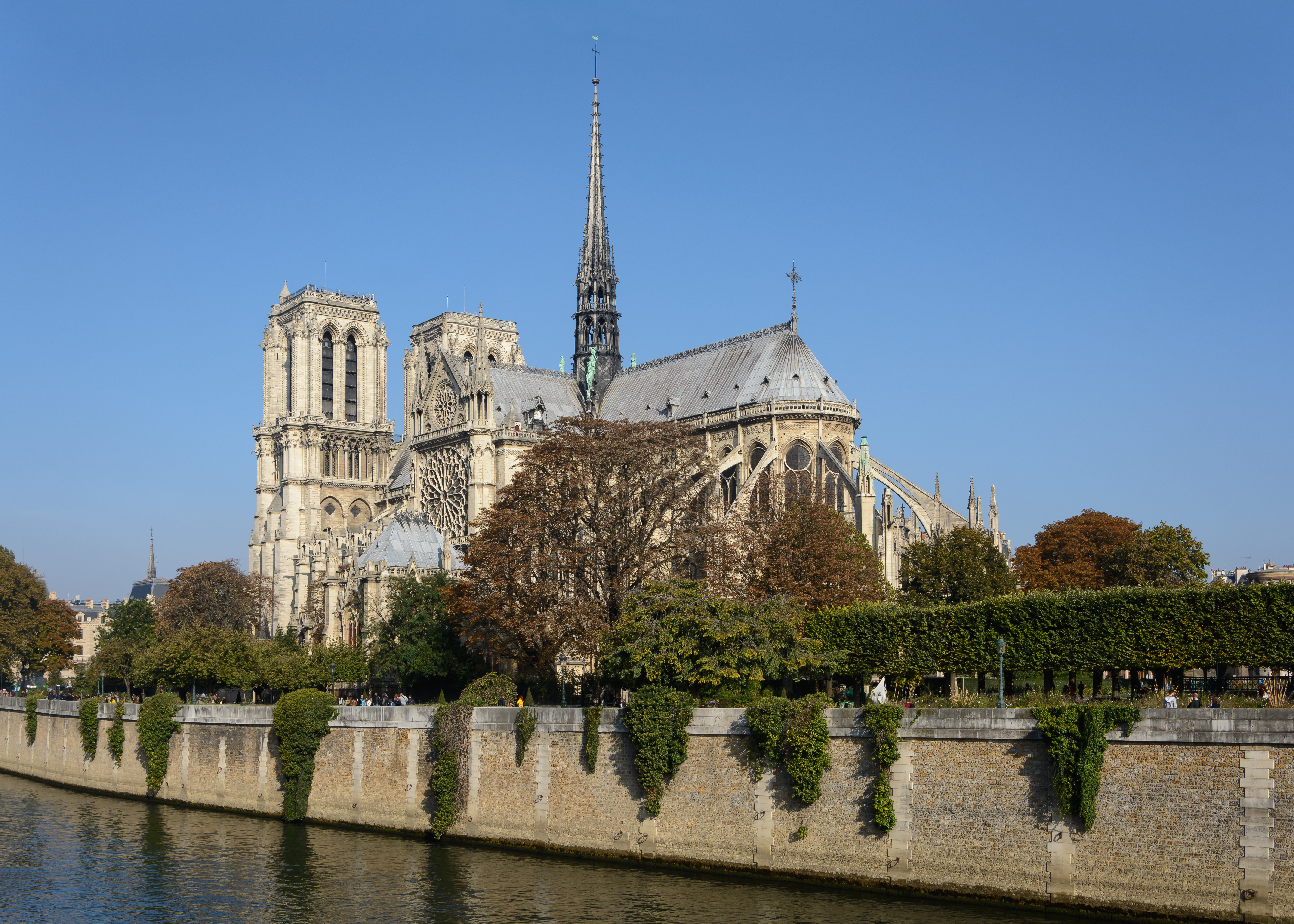 Southeast view of cathedral Notre-Dame de Paris, France